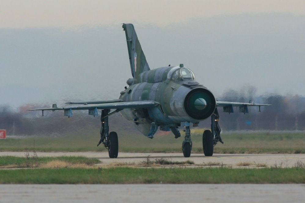 Croatian Air Force Mikoyan-Gurevich MiG-21bisD at 20th aniversary